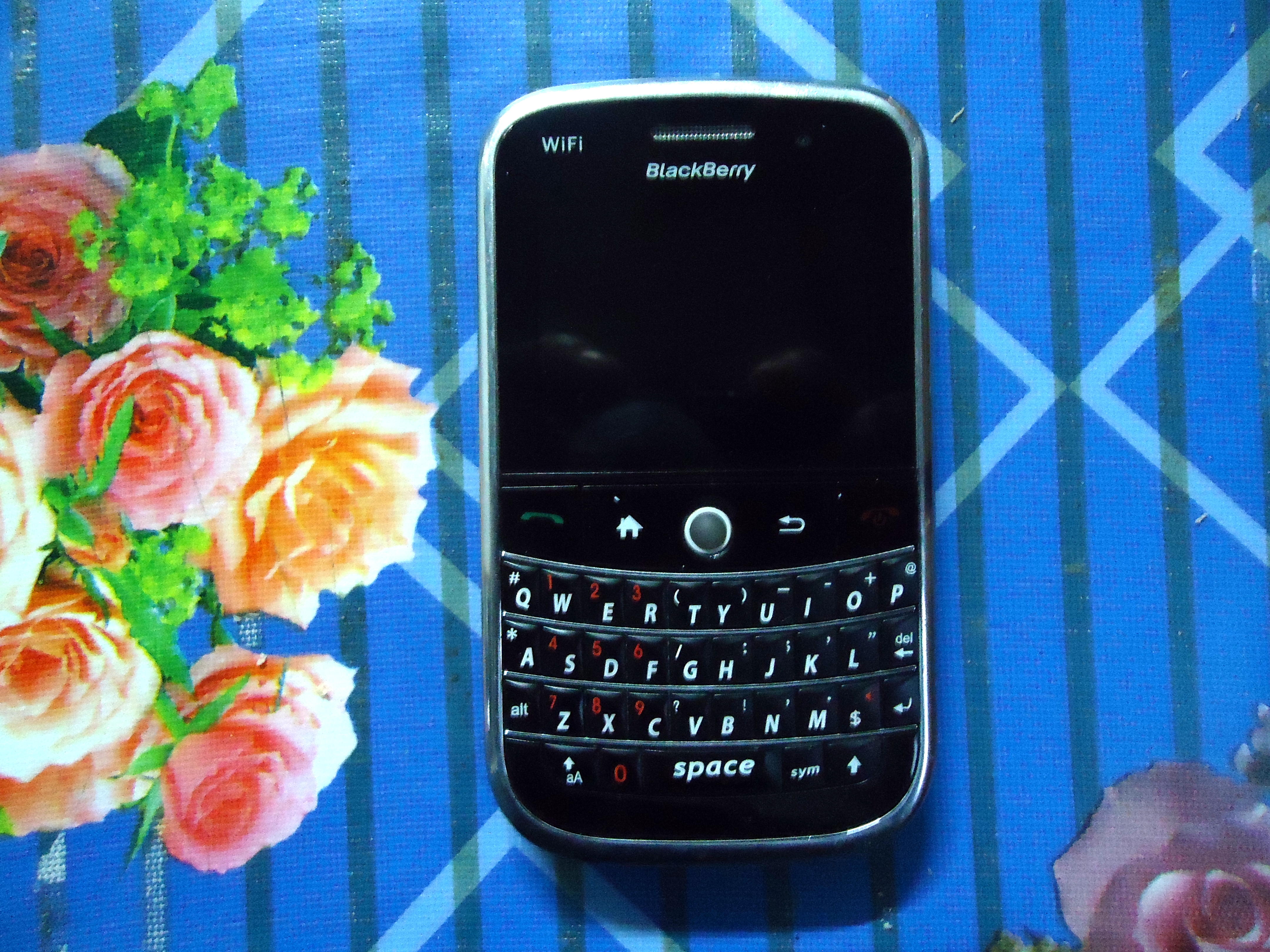 BlackBerry Bold 9000